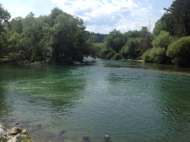 Confluence of Sava Dolinka (right) and Sava Bohinjka (left) to Sava.